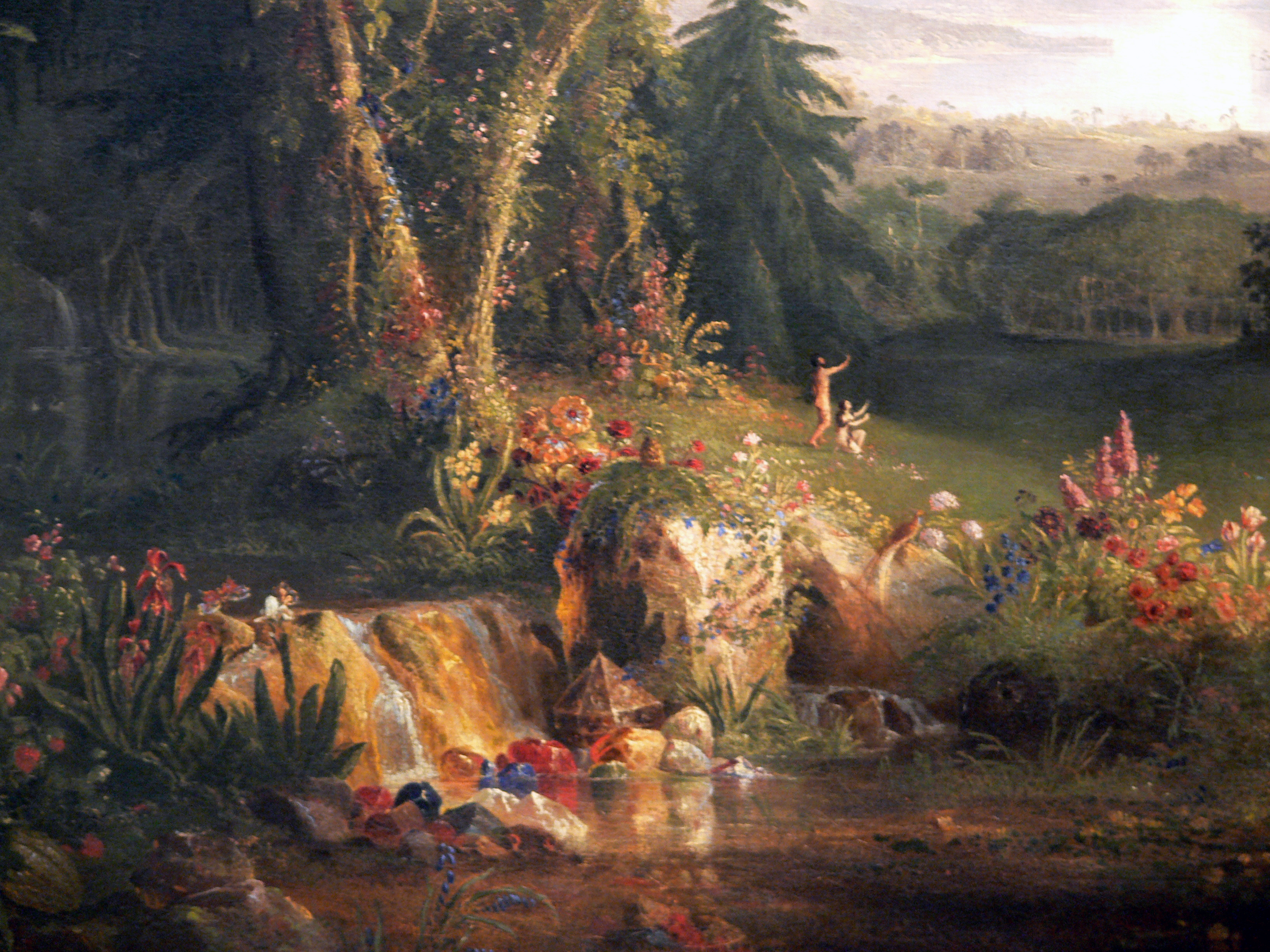 The Garden of Eden